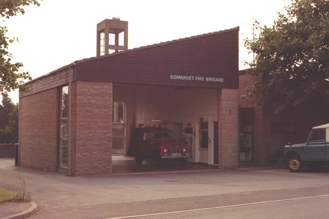 Nether Stowey Fire Station, Banneson Road, Nether Stowey, Somerset